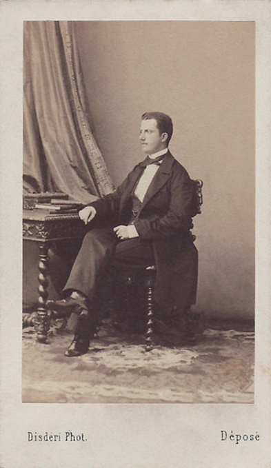 Adolphe Eugène Disderi (1810-1890) - Ferdinand IV of Hapbsburg-Lorena (1835-1908), last Grand Duke of Tuscany.